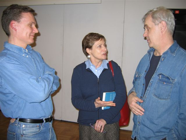 Marek Zagańczyk (b. 1967), Polish essayist and editor and Barbara Toruńczyk (b. 1946), Polish essayist, journalist and editor and Piotr Kłoczowski (b. 1949), Polish essayist and editor